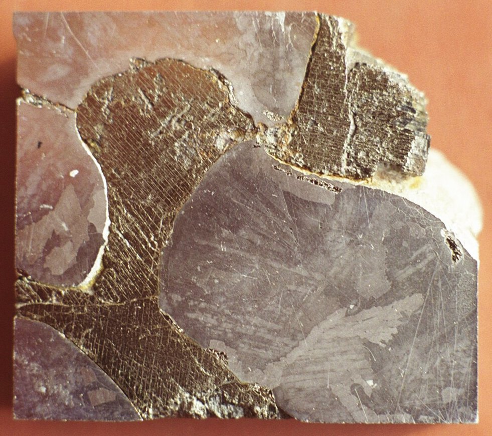 see below This is a macro photograph of an etched surface of the Mundrabilla meteorite, a small piece of the approximately 3.9 billion-year-old meteorite that was first discovered in Western Australia in 1911. Two more giant chunks, together weighing about 17 tons, were found in 1966. Researchers can learn much from this natural crystal growth experiment since it has spent several hundred million years cooling, and would be impossible to emulate in a lab. This single slice, taken from a 6 ton piece recovered in 1966, measures only 2 square inches. The macro photograph shows a metallic iron-nickel alloy phase of kamcite (38% Ni) and taenite (6% Ni) at bottom right, bottom left, and top left. The darker material is an iron sulfide (FeS or troilite) with a parallel precipitates of duabreelite (iron chromium sulfide (FeCr2S4).